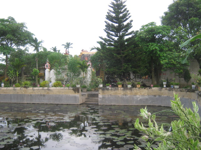 Temple Trieu Viet Vuong - Trieu Quang Phuc in Yen Ninh, Yen Khanh and Ninh Binh City